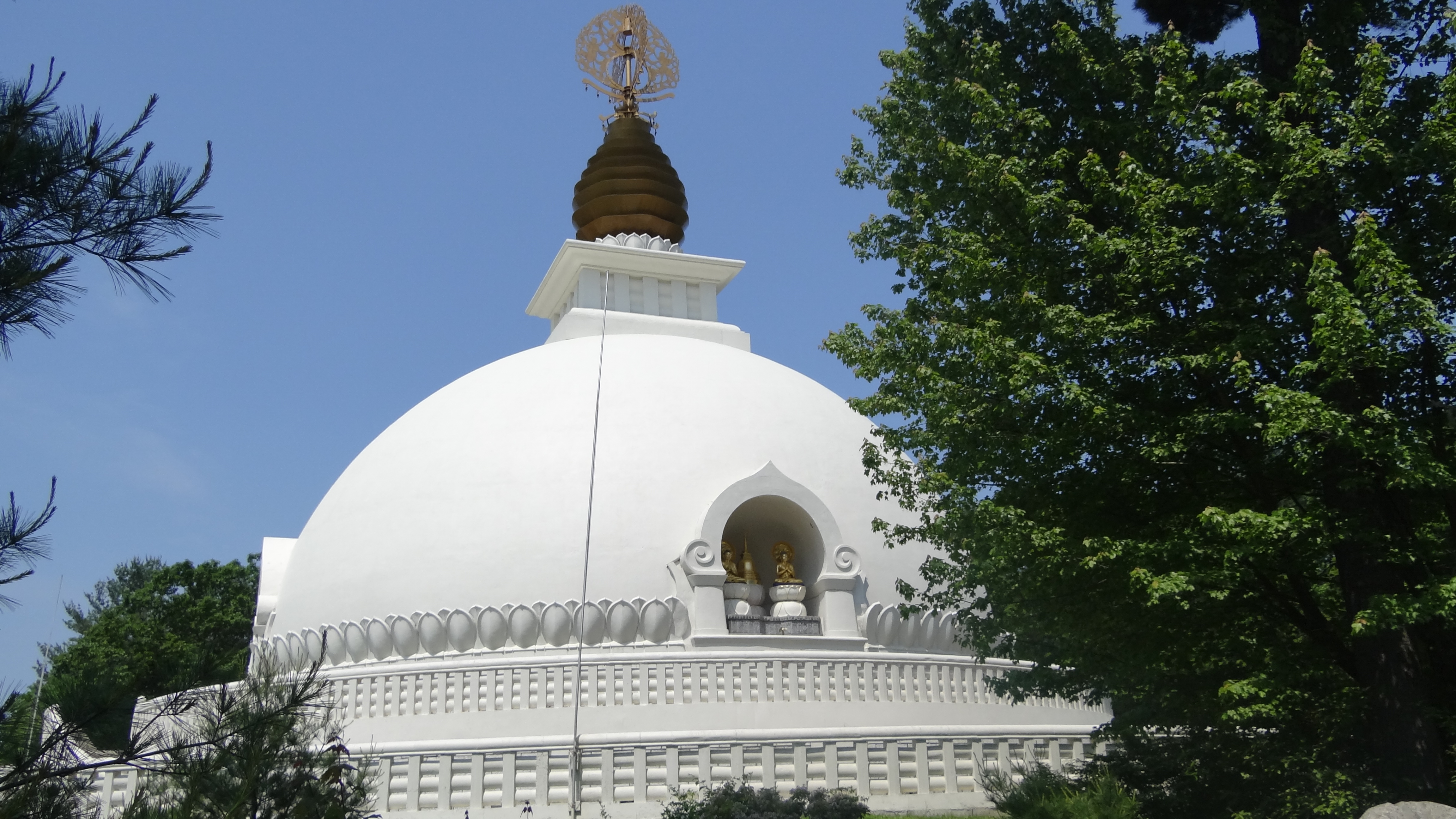 The New England Peace Pagoda located in Leverett, Massachusetts is the first pagoda of its kind to be built in North America. Built entirely by volunteer labor the pagoda stands as a monument to all for peace.